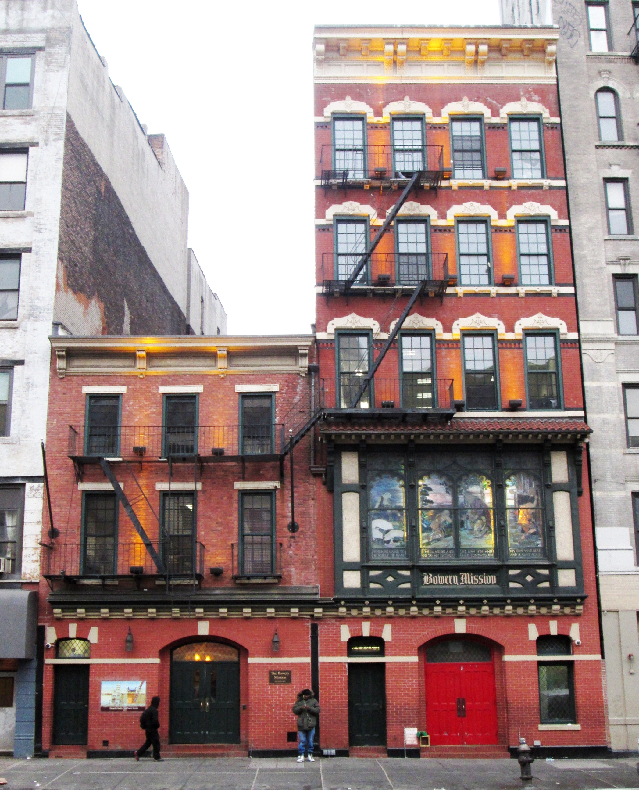 The Bowery Mission, located at 227-229 Bowery between Rivington and Stanton Streets in The Bowery neighborhood of Manhattan, New York City, provides food, shelter, medical services and employment assistance to poor homeless men. It was founded in 1879 by the Reverand Albert Gleason Ruliffson and his wife, and was the third rescue mission established in the United States and the second in New York City. The building at 227 Bowery was designated a New York City landmark on June 26, 2012. It was built in 1876 for James Stolts, an undertaker and manufacturer of coffins, and was designed by William Jose in the neo-Grec style. It was altered in 1908-09 for the Mission's use by Marshall L. and Henry G. Emery, who added the stained-glass windows on the second floor and remodeled the interior of that floor into a chapel in the Gothic Revival style. (Source: Designation report)